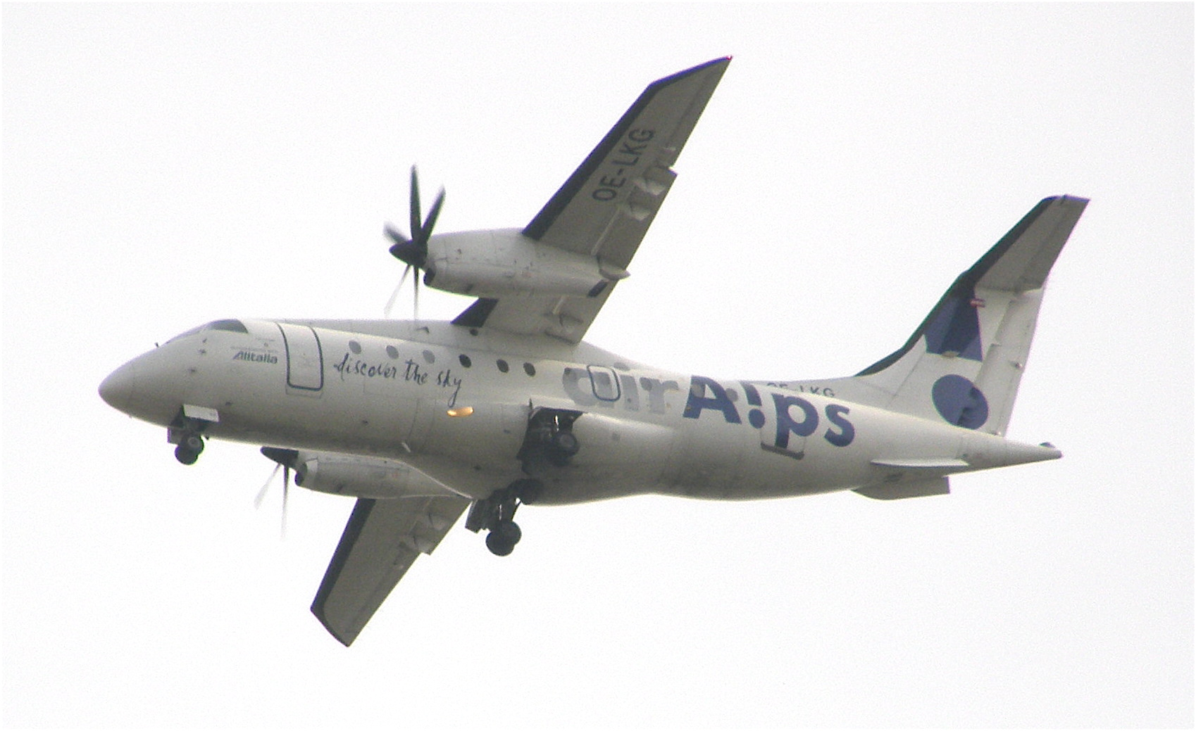 An Air Alps Dornier 328-110 landing at Fiumicino Airport, Rome, Italy, viewed from Ostia Antica